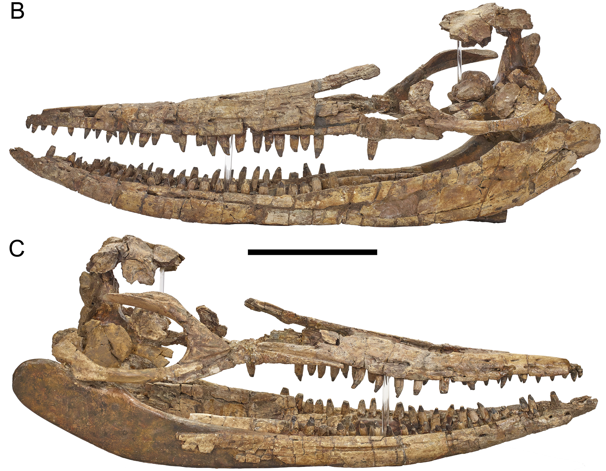 Three-dimensional skull of BMT 1955.G35.1, Protoichthyosaurus prostaxalis. (B) Skull in left lateral view, as reconstructed in 2015. (C) Skull in right lateral view, as reconstructed in 2015. Note the distinctive asymmetric maxilla with long, narrow anterior process. Teeth are not in their original positions. Scale bar represents 20 cm.